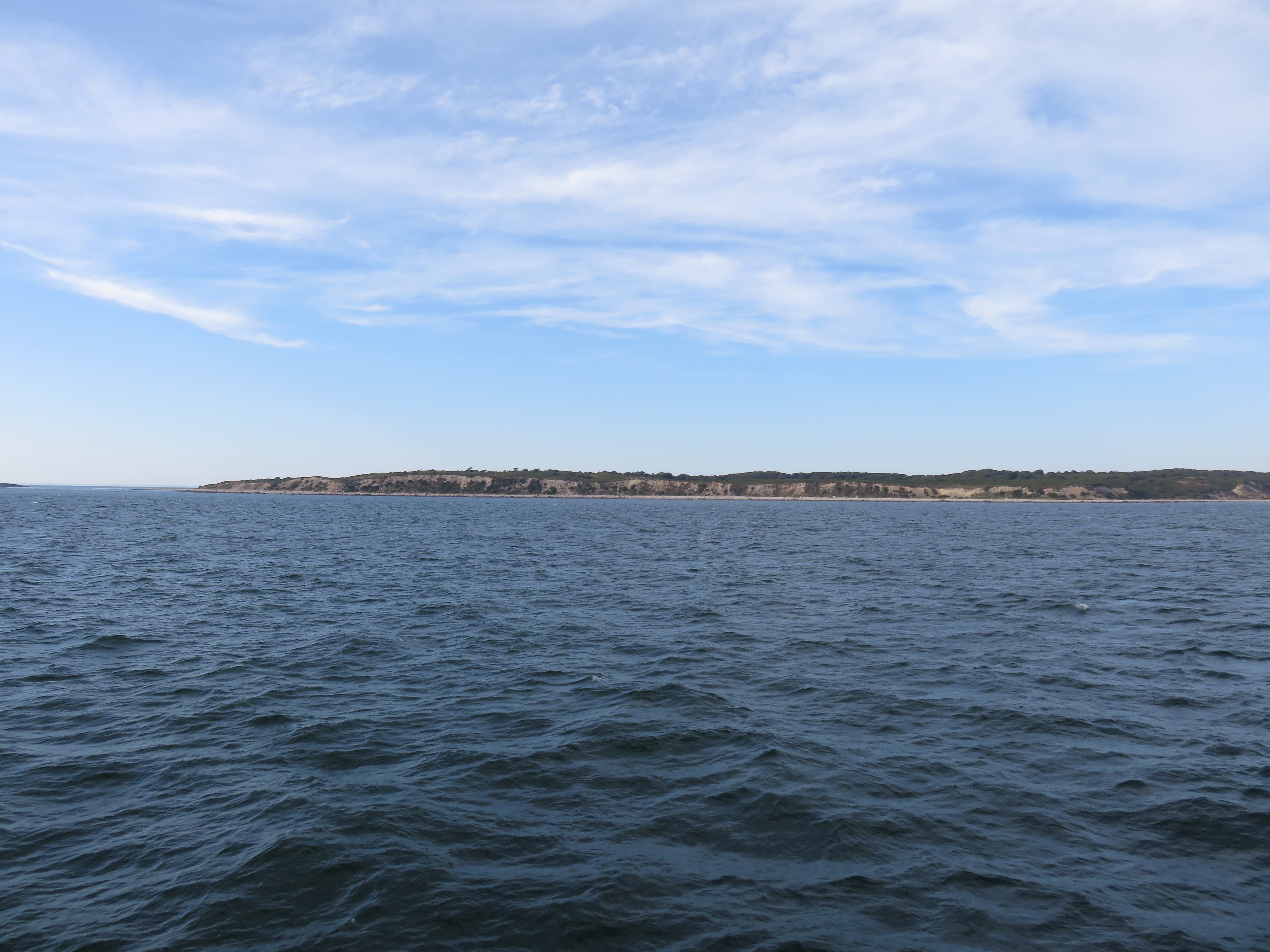 Naushon Island in Gosnold, Massachusetts in 2015